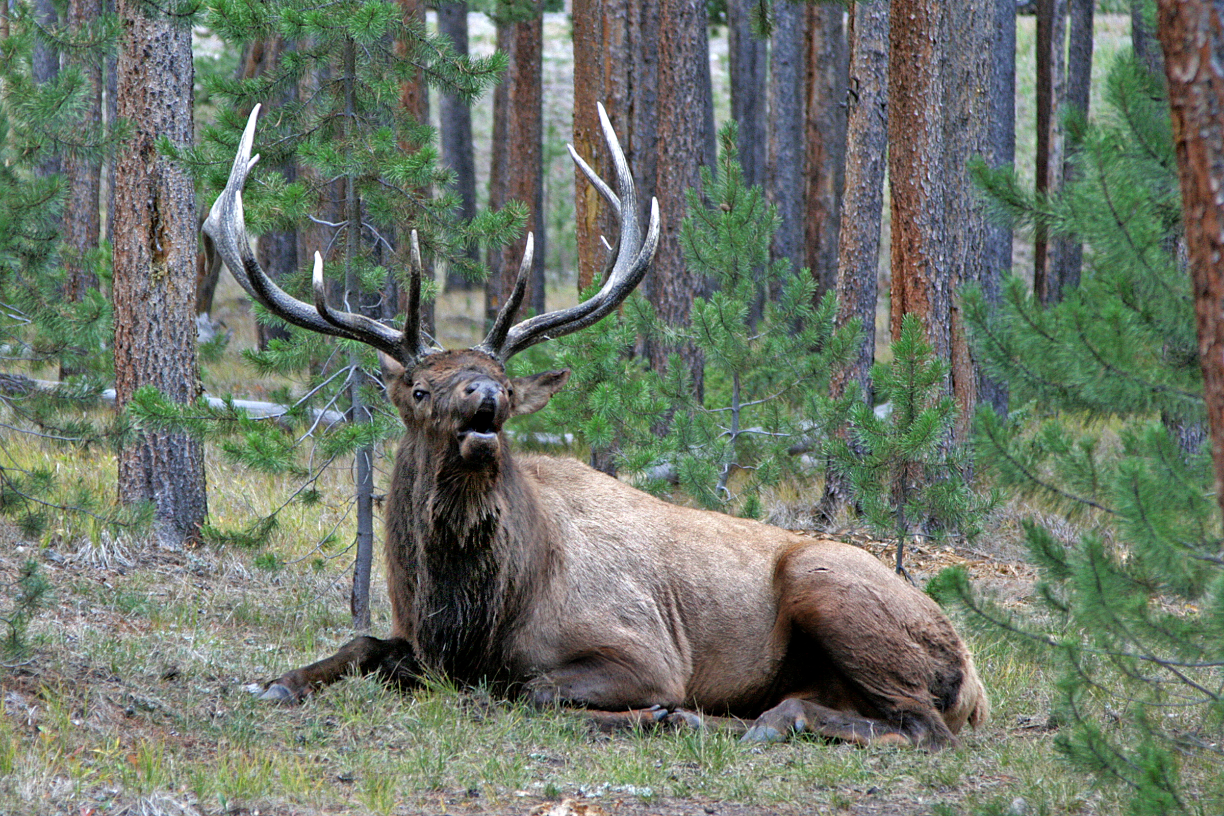 Tristan nahe Madison Junction im Yellowstone-Nationalpark